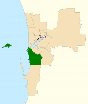 Incorporates or developed using Administrative Boundaries ©PSMA Australia Limited licensed by the Commonwealth of Australia under Creative Commons Attribution 4.0 International licence (CC BY 4.0). Derived from State and Territory Boundaries from the Australian Bureau of Statistics under Creative Commons Attribution 2.5 Australia license (CC BY 2.5 AU)